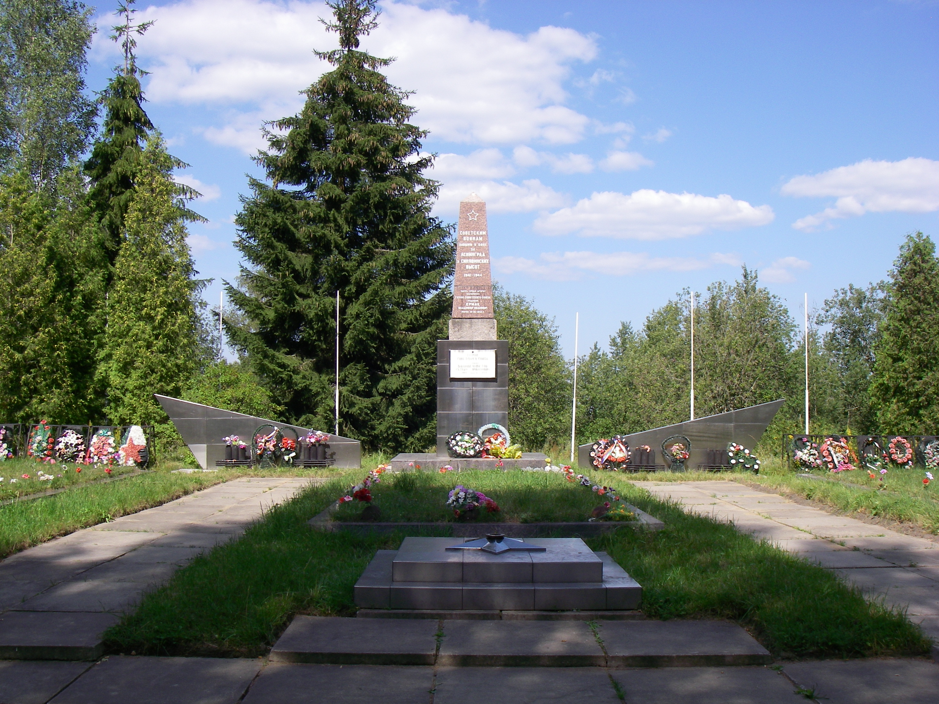 One of the Sinyavino Heights memorials